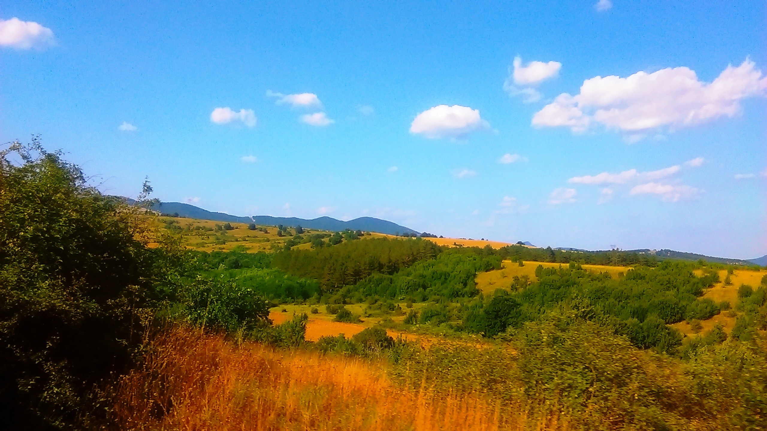 Pastures in Balkan mountains near Lyulyakovo